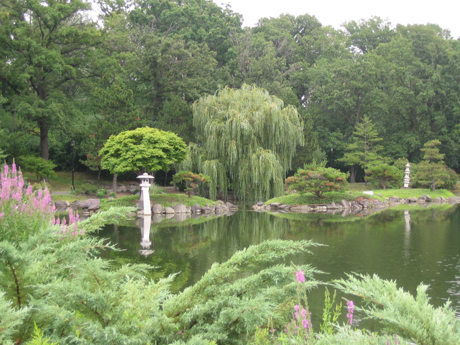 A view of Buffalo's Japanese Garden